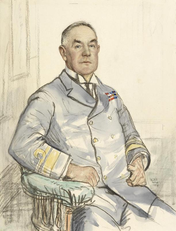 Rear-admiral John Frederick Ernest Green, Cb image: a three quarter portrait of Rear Admiral John Green wearing Royal Navy uniform and sitting in a chair, his right arm resting on the arm of the chair.